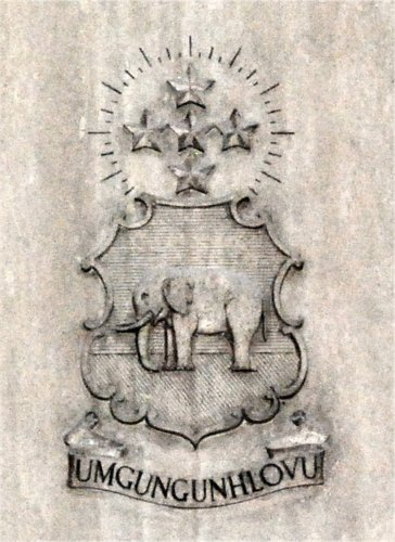 One of the crests in the Banking Hall of the Old Mutual Building, Darling Street, Cape Town